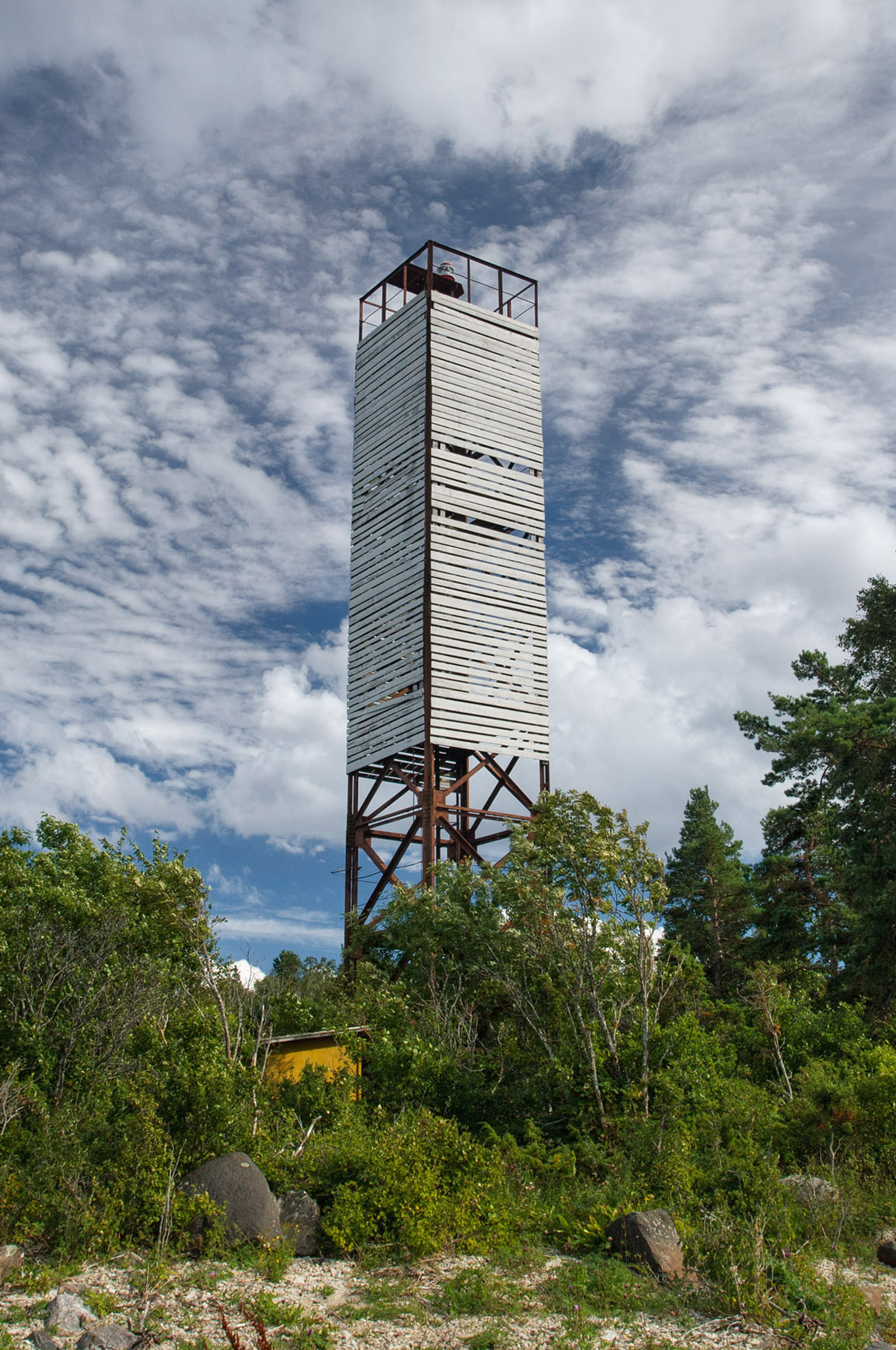 Rannaküla light beacon